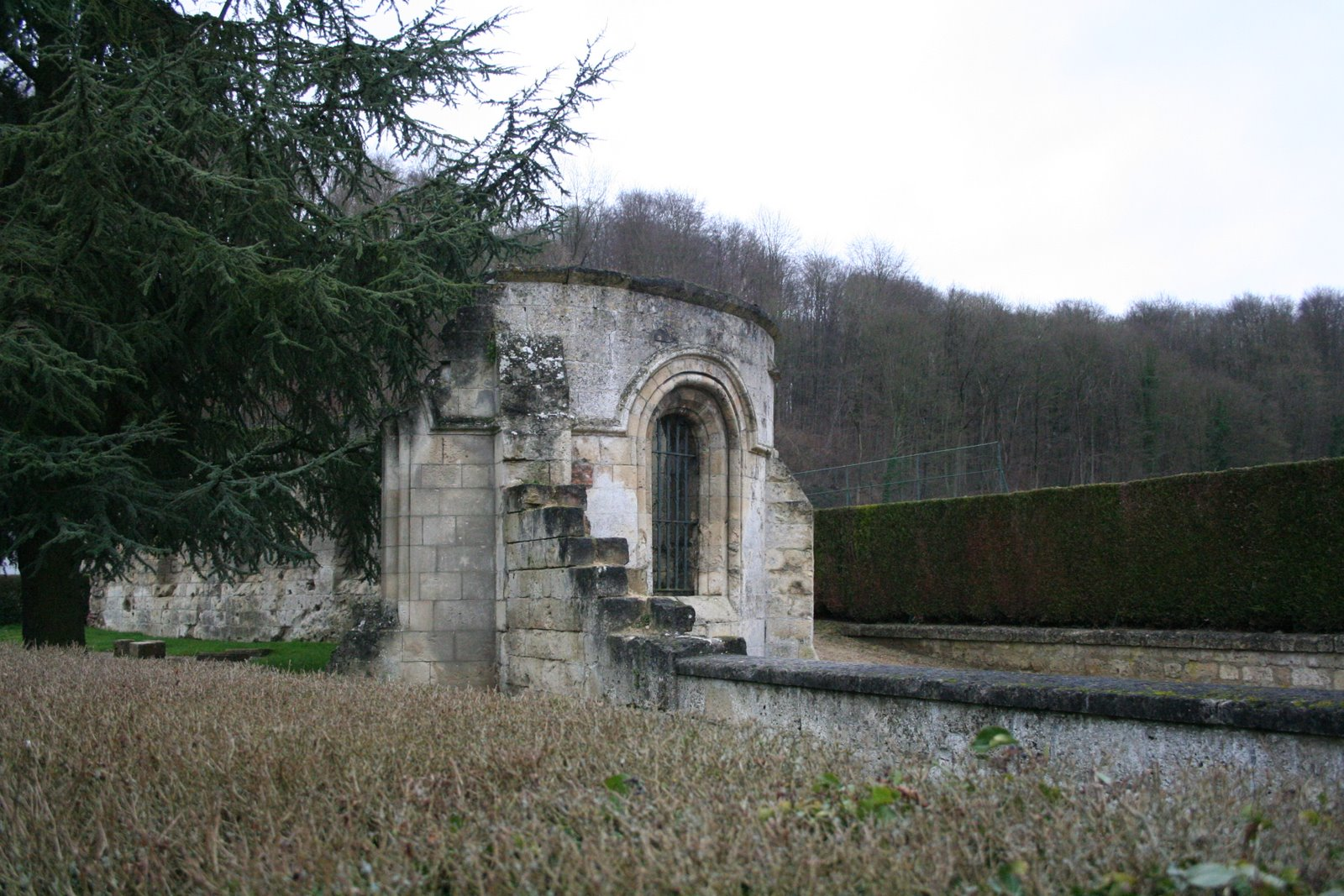 Ruins of the old Chapel of St. John the Baptist, first abbeychurch of Prémontré.